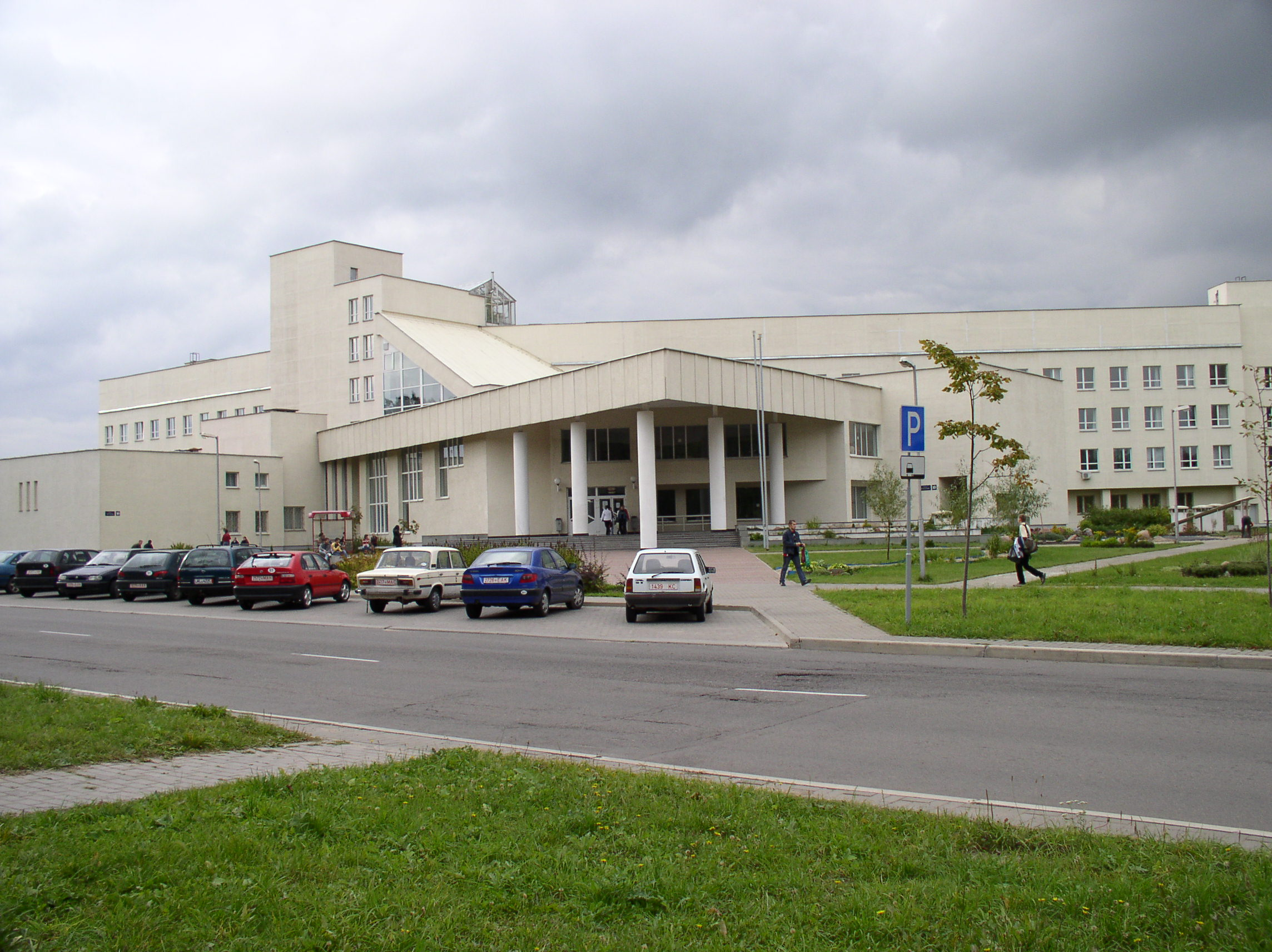 New building of biology faculty, Belarusian State University branch. Minsk, Belarus.